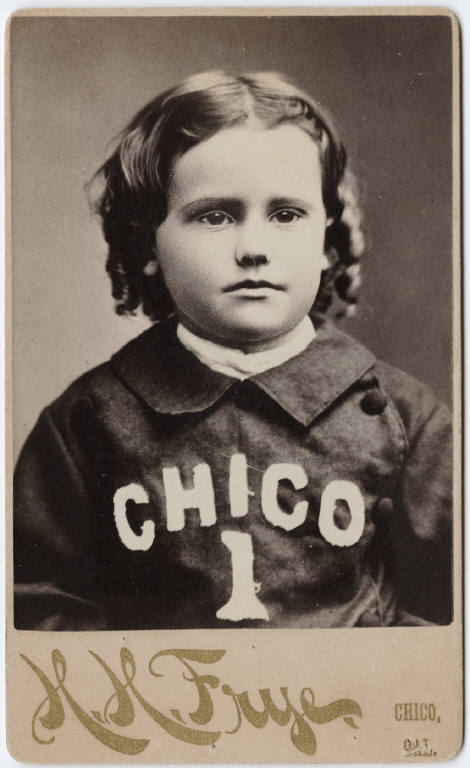 Author/Creator: Frye, H. H. Part of: Carl Mautz collection of cartes-de-visite photographs created by California photographers. Physical Description: 1 photographic print cartes-de-visite, b&w approx. 9.3 x 5.5 on mount 10 x 6.4 cm. Folder or box number: Folder Frye Genre/Form: Photographs Cartes-de-visite Photographic prints Studio portraits Cite as: Yale Collection of Western Americana, Beinecke Rare Book and Manuscript Library Repository: Beinecke Rare Book & Manuscript Library, Yale University Bibliographic Record Number: 2015113 Call Number: WA Photos 357 View our Record: Permalink Flickr data on 2011-08-25: License: CC BY-SA 2.0 User: Beinecke Library